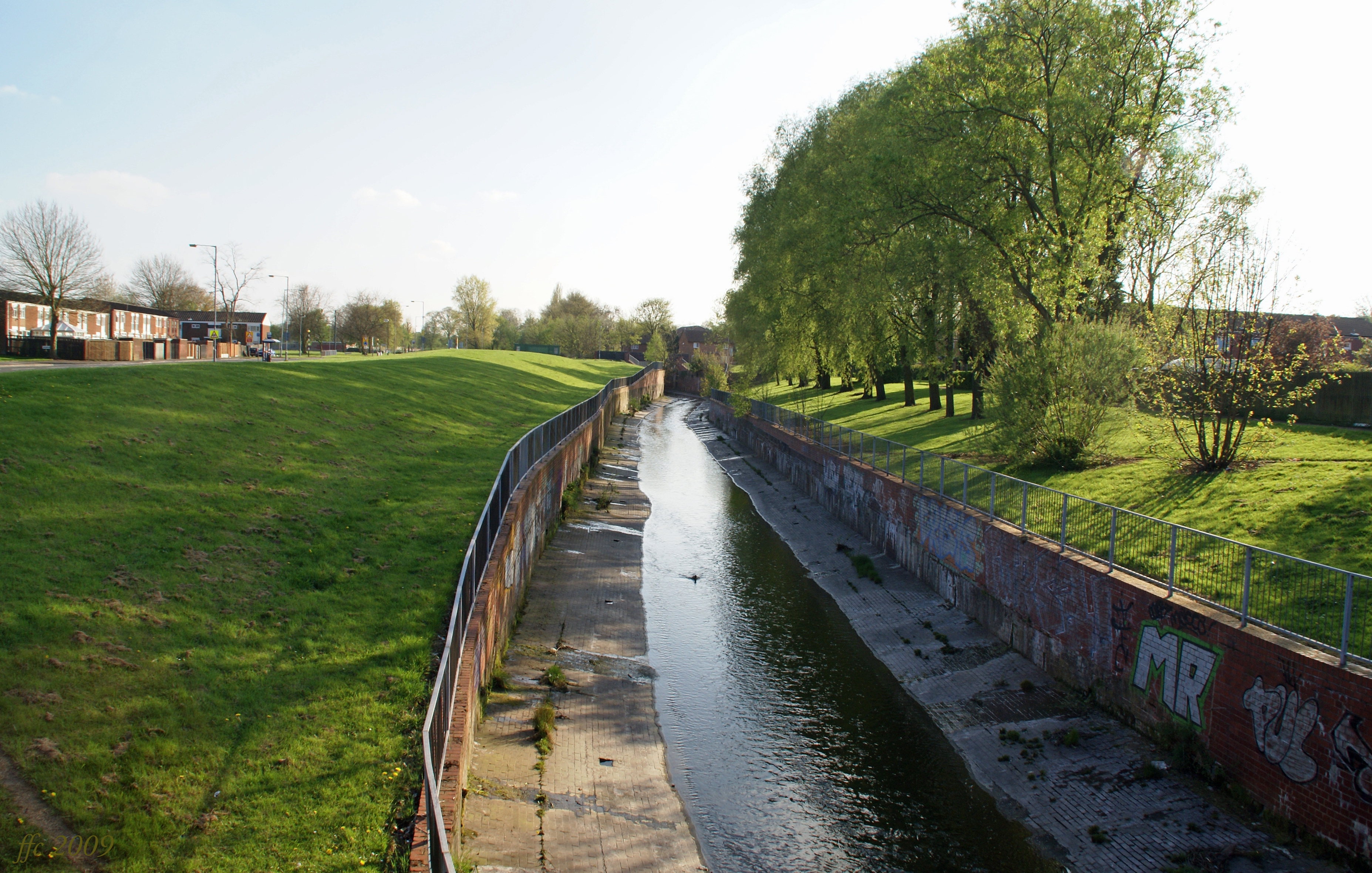 Birmingham (United Kingdom): The River Rea at the Belgrave Middleway